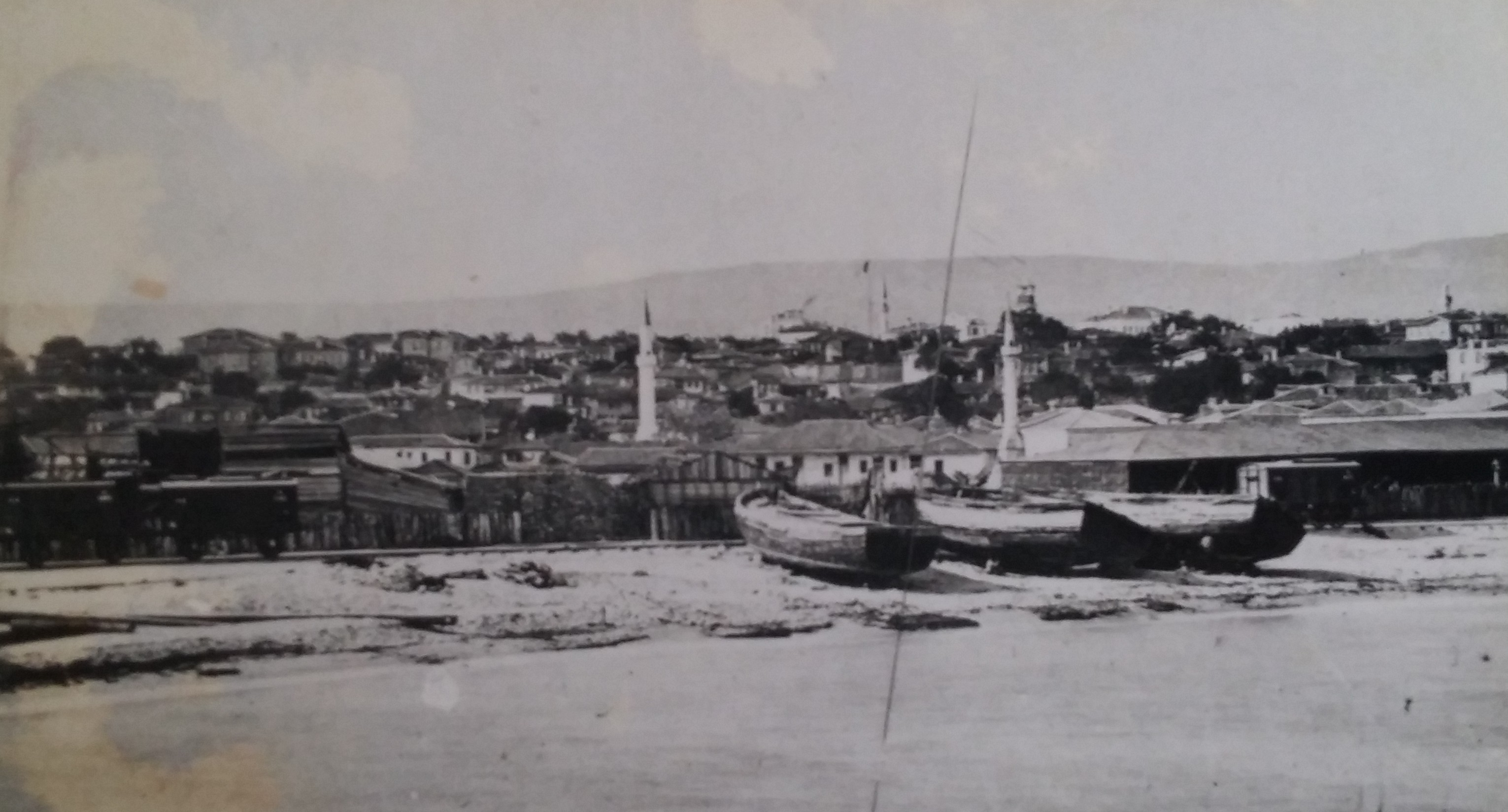 Panoramic photos of Varna after the Liberation.